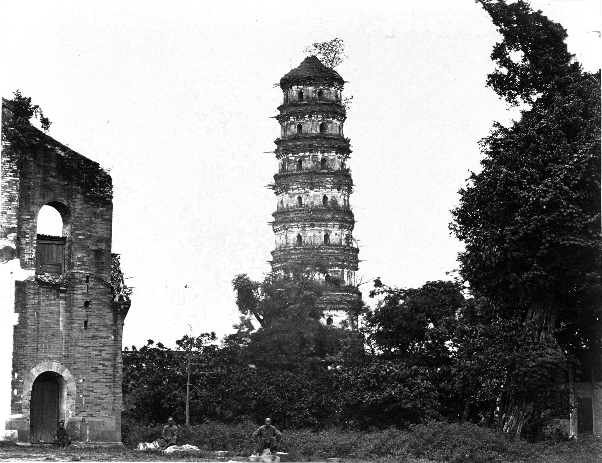 View of the ruins of the Flowery Pagoda [Hua Ta], Liurong Si (also known as Temple of the Six Banyan Trees), Canton (now Guangzhou), China